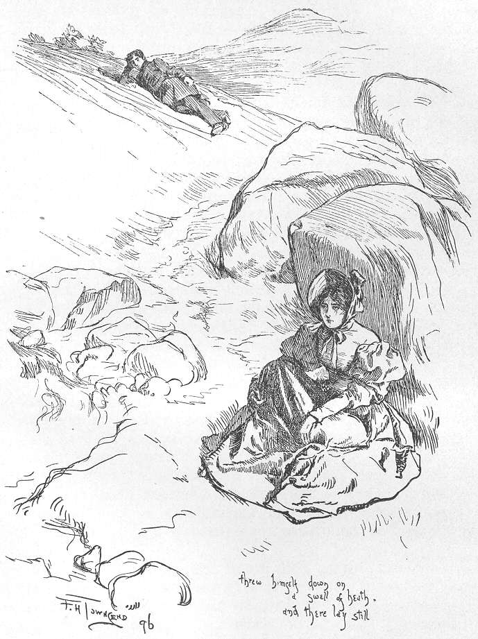 threw himself down on a swell of heath, and there lay still